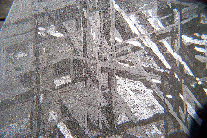 Widmanstätten pattern on a Gibeon meteorite.